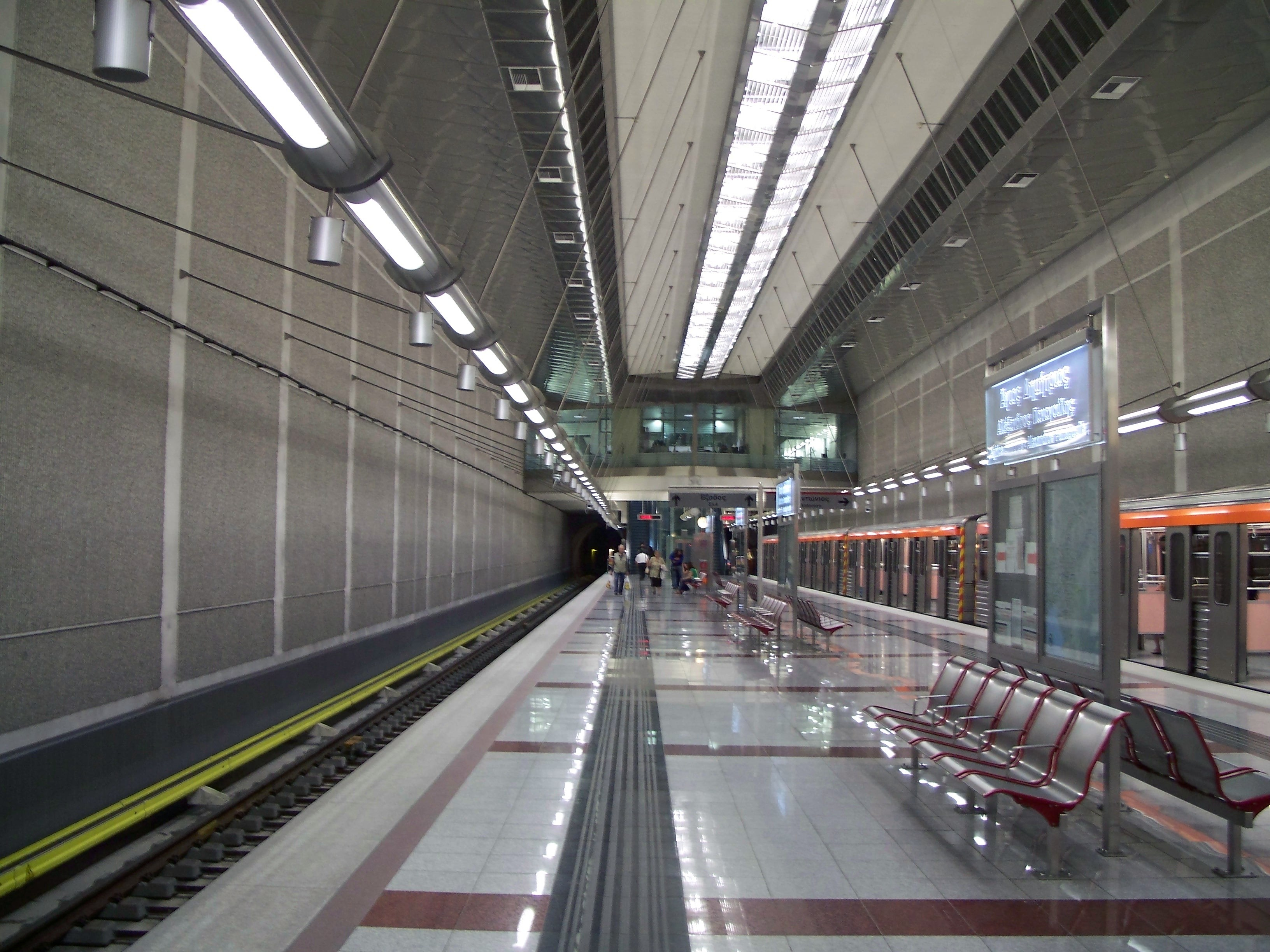 Agios Dimitrios/Aleksandros Panagoulis station of Athens Metro system